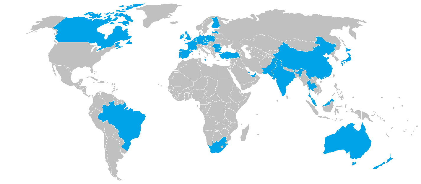 blue: Countries, that already hosted at least one snooker main tour event or that will host an event in the current season 2014/15 for the first time. Australia (Australian Goldfields Open) Bahrain (Bahrain Championship) Belgium (European Open (snooker), Players Tour Championship) Brazil (Brazilian Masters) Bulgaria (Players Tour Championship) Canada (Canadian Masters) China (various; e.g. China Open (snooker), Shanghai Masters (snooker), ...) Czech Republic (Players Tour Championship) France (European Open (snooker)) Germany (German Masters, Players Tour Championship) Hong Kong (Hong Kong Open (snooker)) India (Indian Open (snooker)) Ireland (various; e.g. Irish Open, Irish Masters, ...) Latvia (Players Tour Championship) Malta (Malta Cup, Malta Grand Prix) the Netherlands (European Open (snooker), Players Tour Championship) Poland (Players Tour Championship) Portugal (Players Tour Championship) Thailand (Thailand Masters, Thailand Classic) United Arab Emirates (Dubai Classic) United Kingdom (various; e.g. World Snooker Championship, UK Championship (snooker), ...) This sport map image could be recreated using vector graphics as an SVG file. This has several advantages; see Commons:Media for cleanup for more information. If an SVG form of this image is available, please upload it and afterwards replace this template with vector version available|new image name .